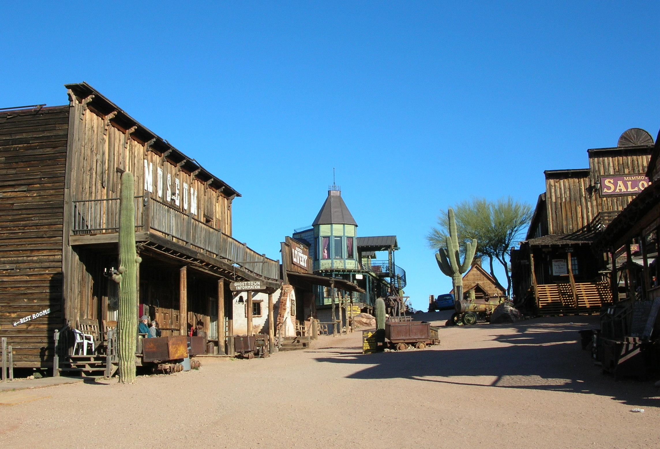 Goldfield Ghost Town on Apache Trail, Arizona, USA